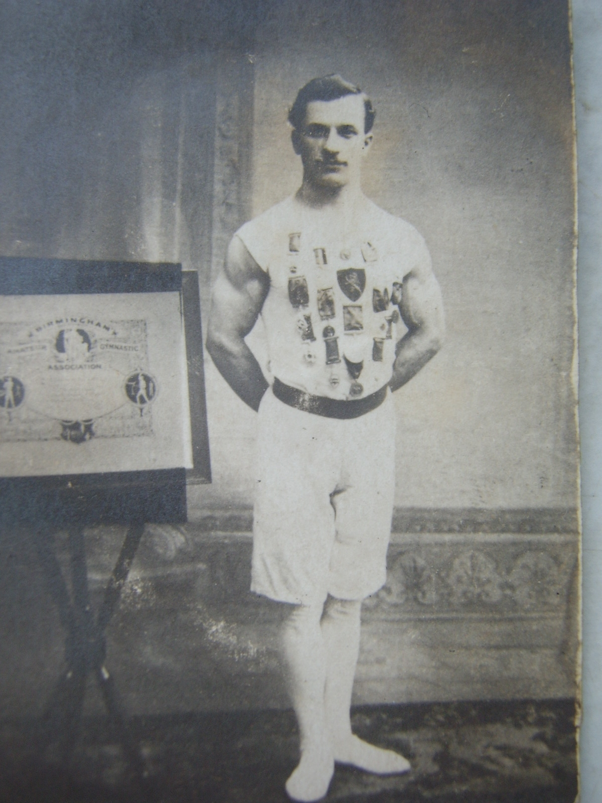 John T. Whitaker, Olympic Gymnast for Great Britain in 1908 and 1912.